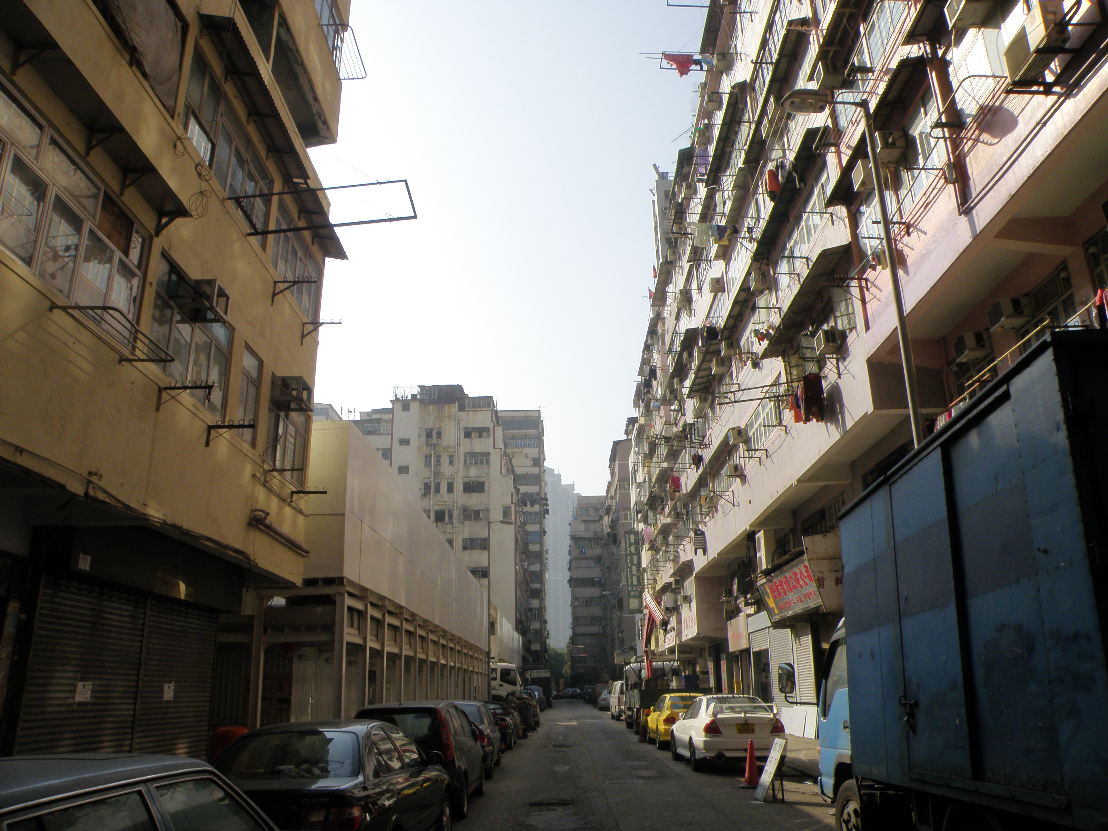 Li Tak Street in Tai Kok Tsui, Hong Kong.